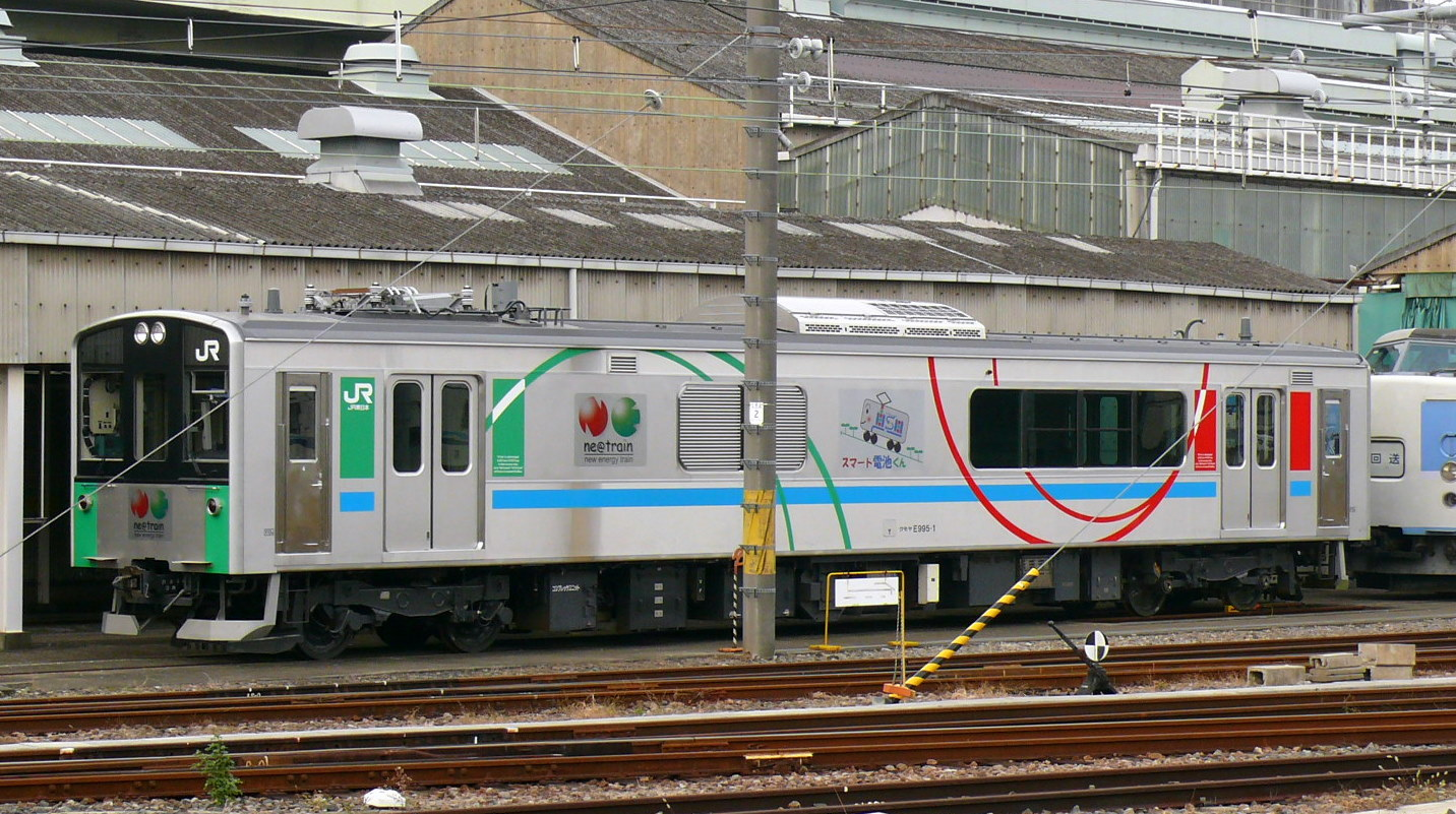 JR East KuMoYa E995-1 "NE Train Smart Denchi-kun" experimental battery/electric hybrid railcar at Omiya General Rolling Stock Center